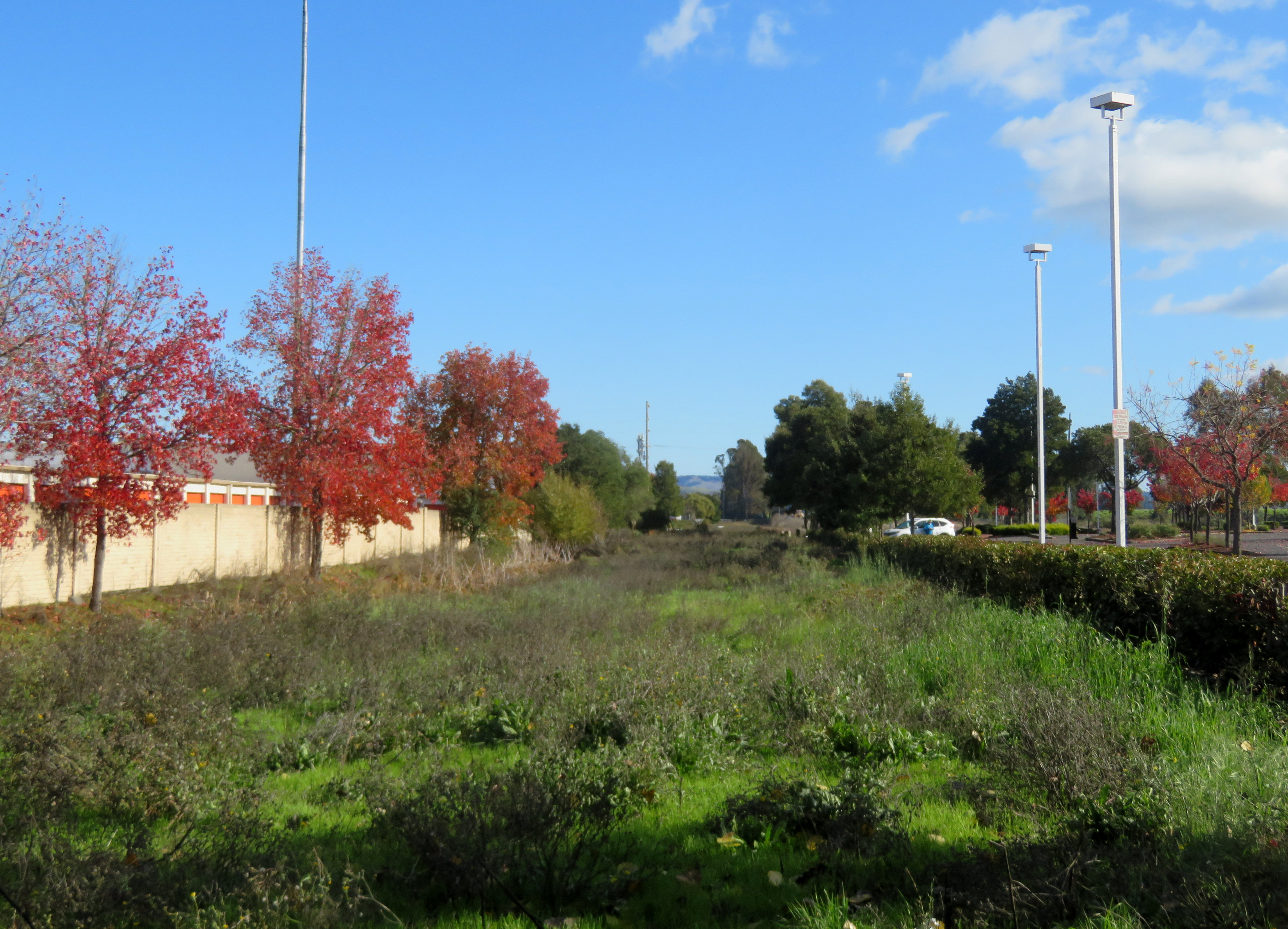 Original right-of-way of the San Francisco and North Pacific Railroad in Petaluma, seen in December 2019. Built in 1870, the section between Petaluma and Donahue Landing abandoned after the line was branched to San Rafael in 1879 and extended to a new ferry landing at Tiburon in the 1880s.